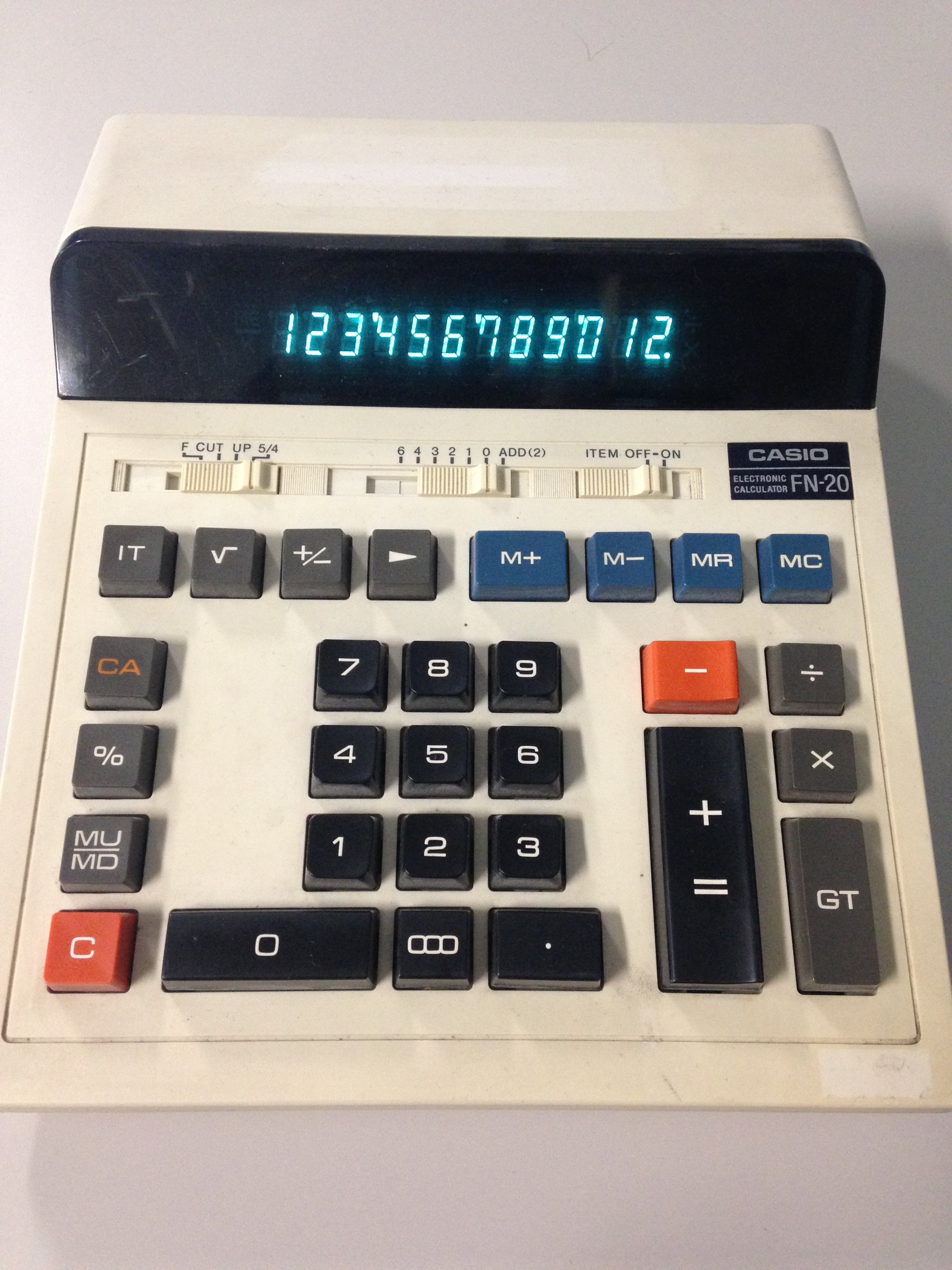 Casio FN-20 electronic calculator